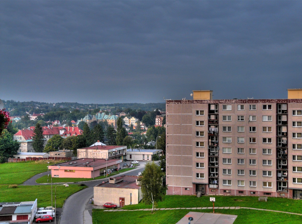 Rumburk - Podhaji - look towards the hospital